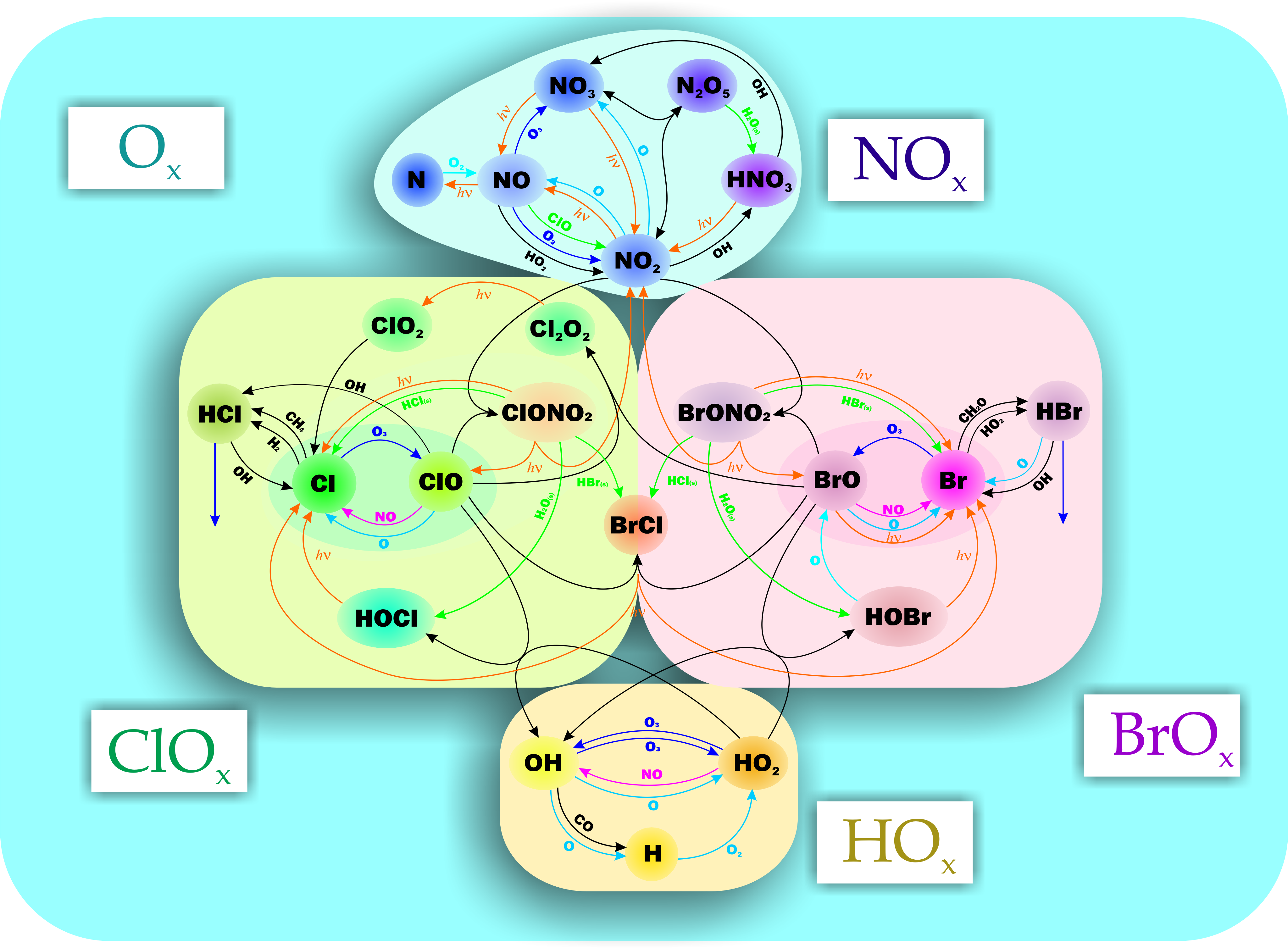 Scheme of the Stratispheric Chemistry of Ozone